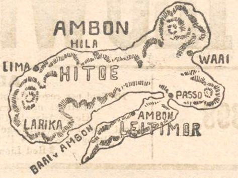 Hila op het eiland Ambon